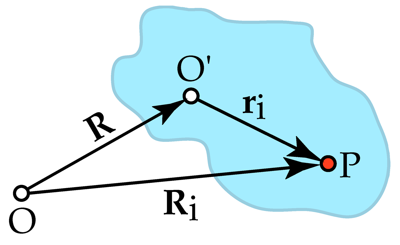 Diagram illustrating the position of a point in a rigid body at vector position Ri with respect to the lab frame (O) and at vector position ri with respect to the rigid body frame (O').